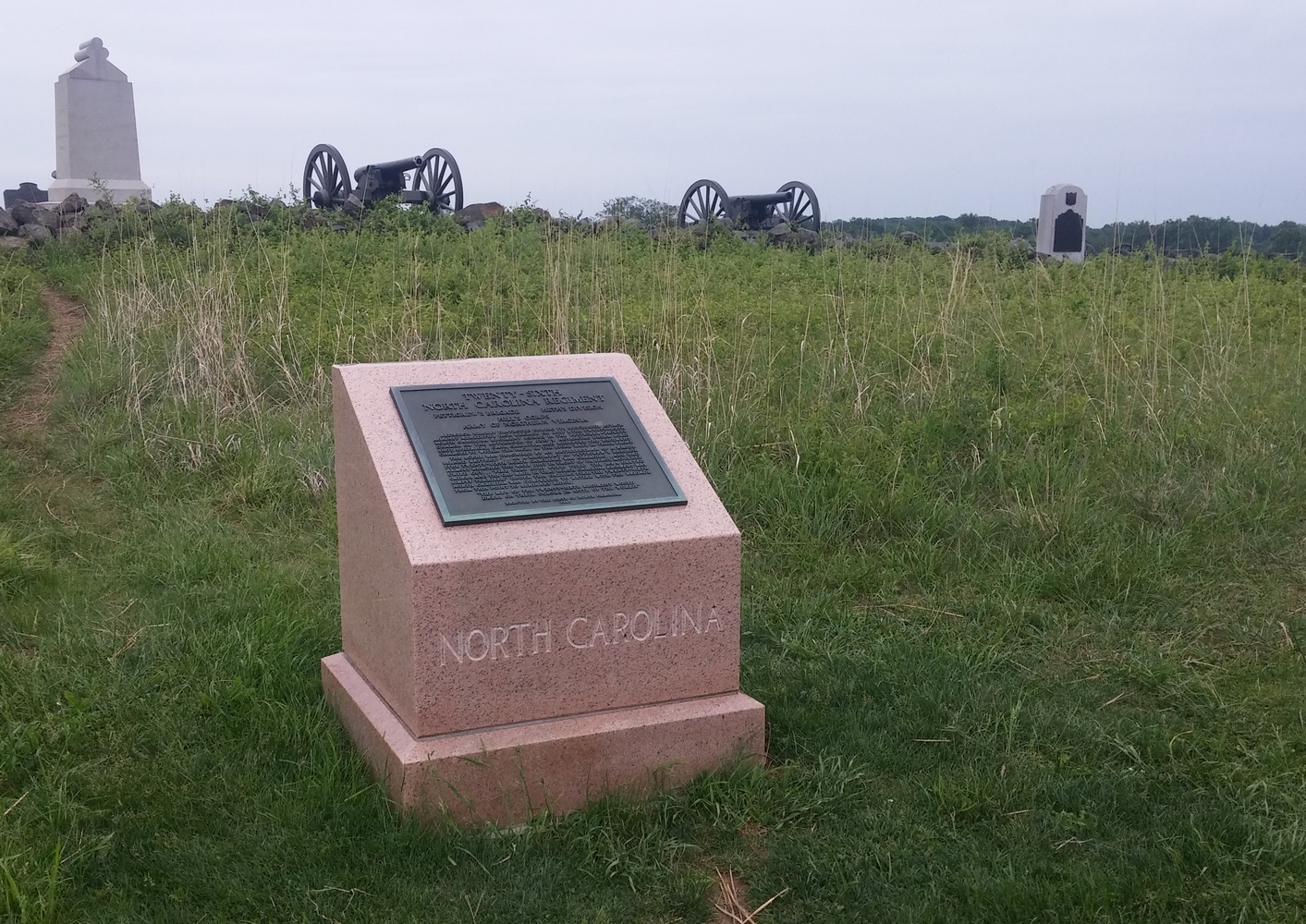 26th North Carolina monument on the site of Pickett's Charge.